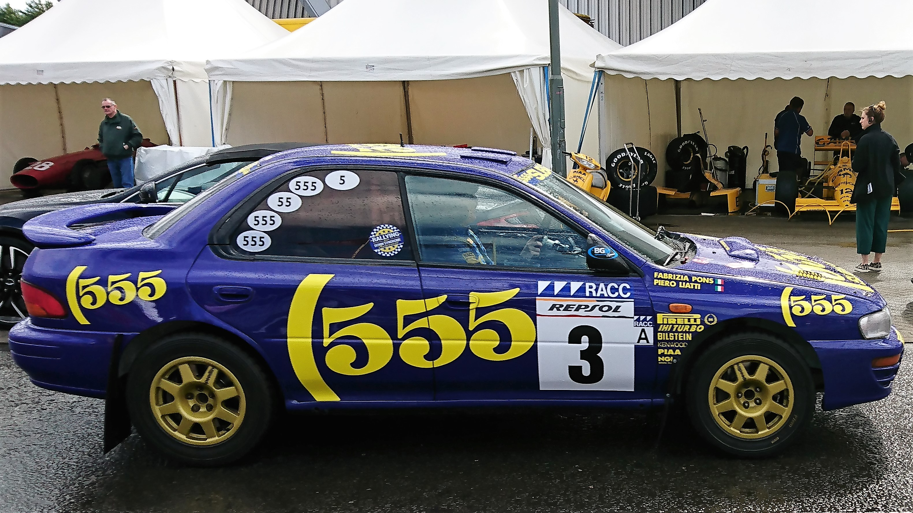 Piero Liatti's 1996 World Rally Championship Subaru Impreza 555, pictured at the Ignition Festival of Motoring - held at the Scottish Event Campus - on 5 August 2017.